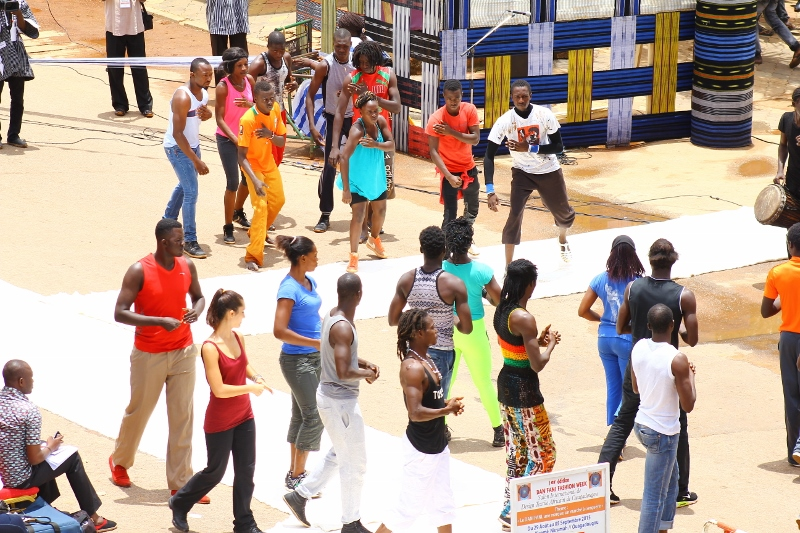 A skit at the 1st Dan Fani Fashion Show in Ouagadougou This is an image of Cultural Fashion or Adornment from Burkina Faso